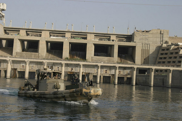 Original Caption: U.S. Marines with Dam Security Unit, Bravo Company, 4th Assault Amphibian Battalion, and attached to en:3rd Battalion, 3rd Marine Regiment conduct a boat patrol on the Euphrates River near Haditha Dam in the Al Anbar province of Iraq, April 30, 2006. U.S. Marine Corps photo by Cpl. Justin L. Schaeffer.